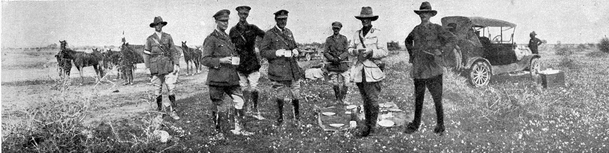 Photo of commanders after the capture of Jericho (Chaytor, Chauvel and Chetwode).